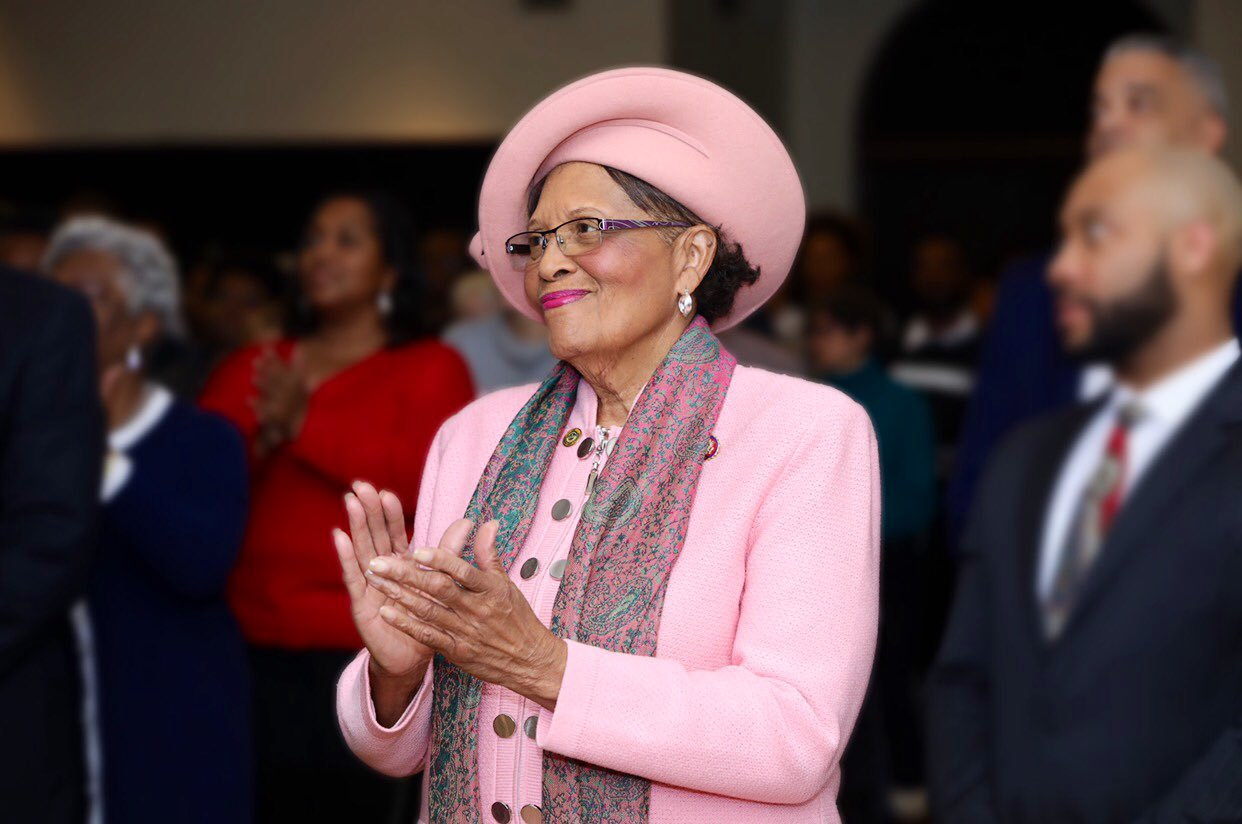 Me - watching with pride - as my colleagues @RepValDemings , @RepAdamSchiff , @RepJasonCrow , @RepJerryNadler , @RepSylviaGarcia , @RepJeffries & @RepZoeLofgren serve as Impeachment Trial Managers and #DefendOurDemocracy. Thank you for your moral strength & dedication to the People